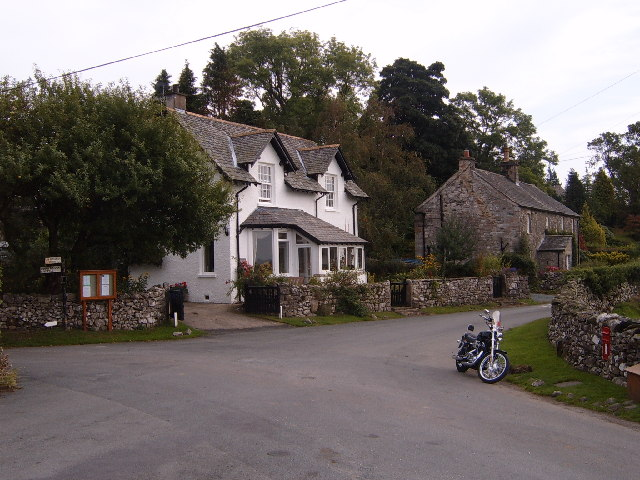 High Casterton.